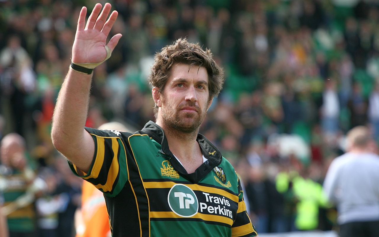 Argentinian rugby union player Ignacio Fernández Lobbe. Original description:Lobbe plays his final game for Northampton Saints : beaten 21-19 by Saracens at Franklin's Gardens in the Guinness Premiership Semi-Final on 16th May 2010